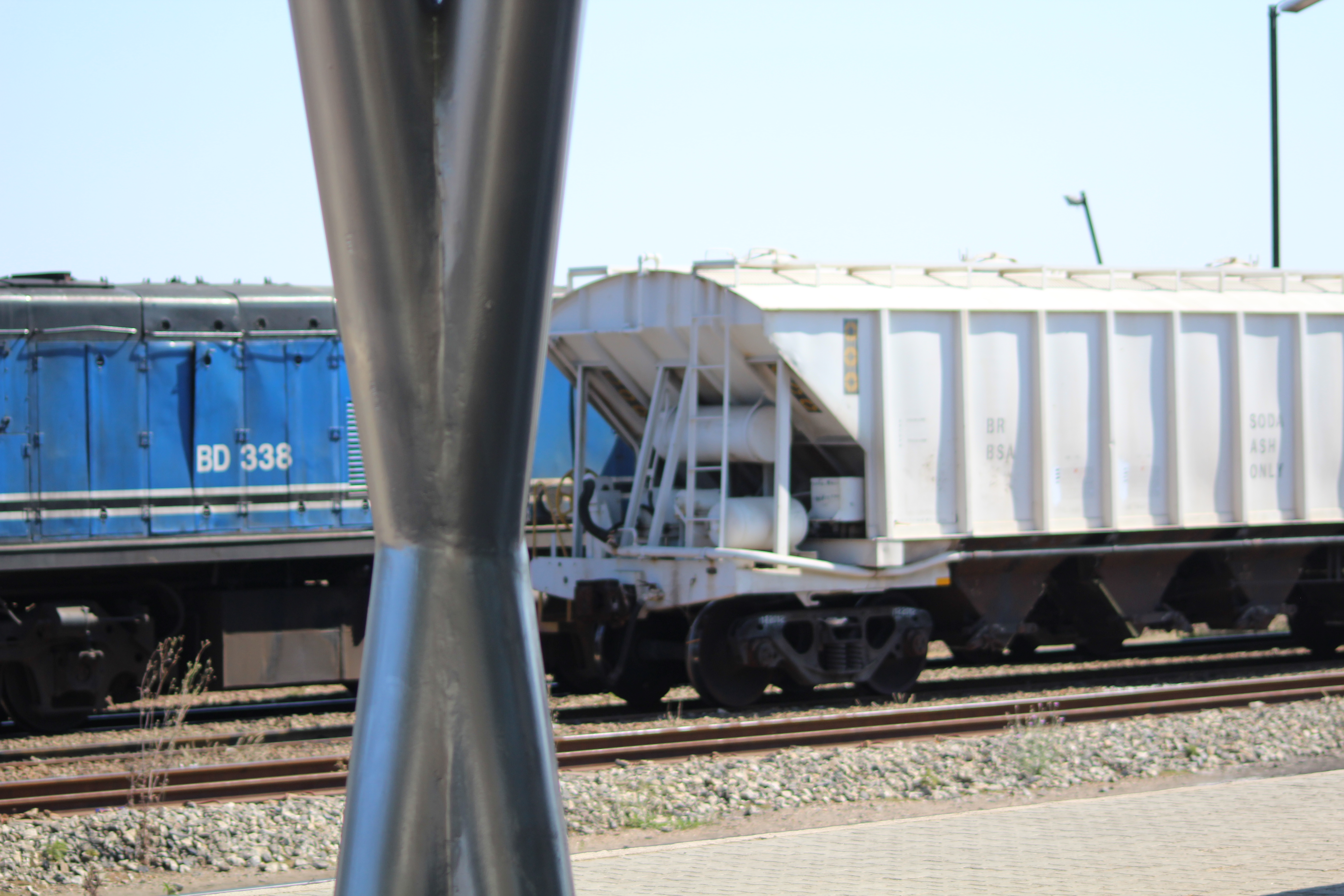 Botswana Railways 24